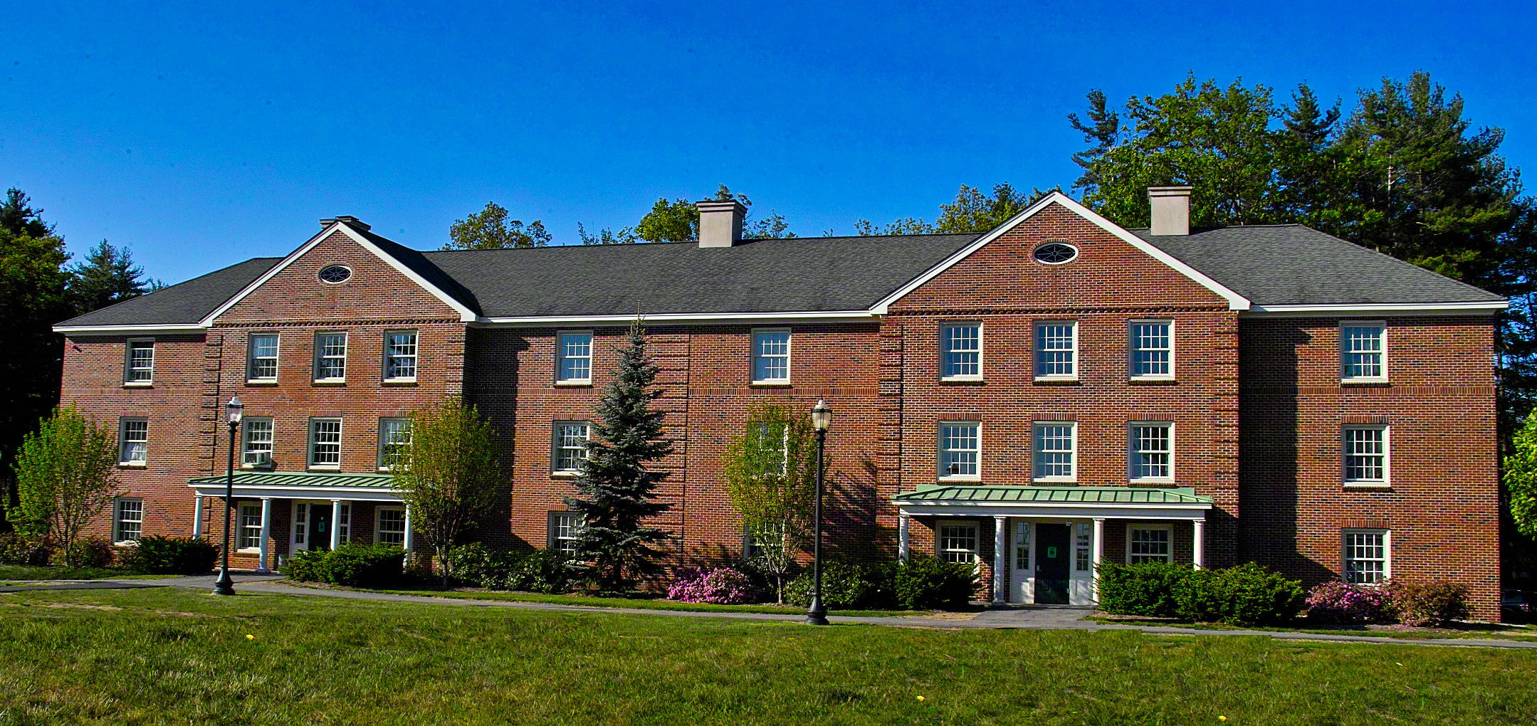 Building L